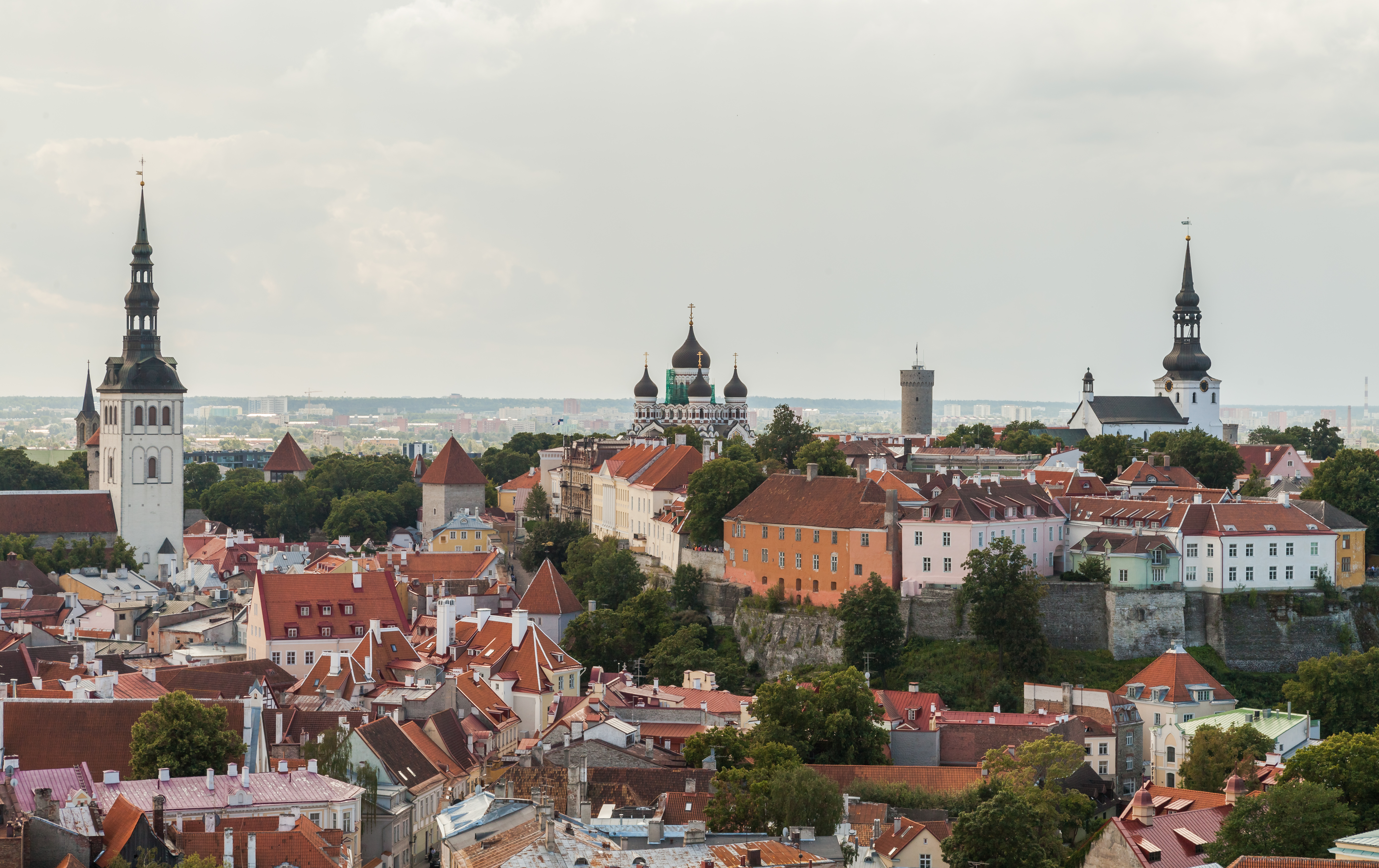 Panoramic view of Tallinn from Olaf's church, Estonia